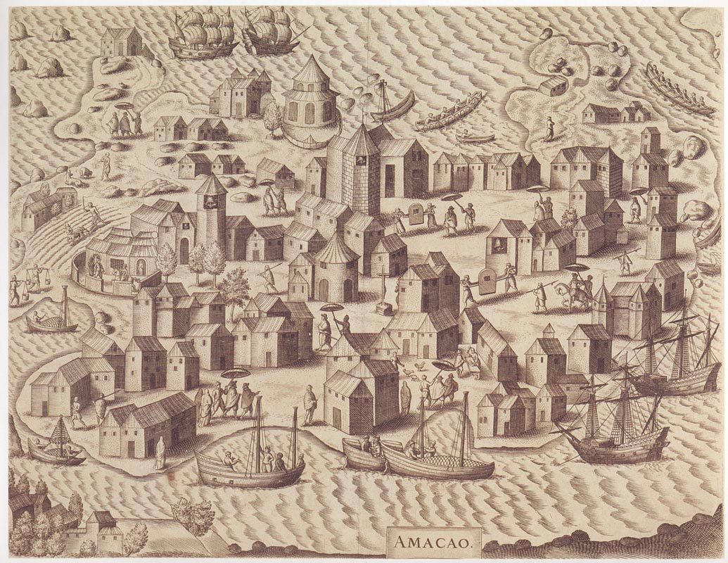 This detail of Macau in the late 1500s reveals Westerners being carried in palanquins or walking through town accompanied by servants with umbrellas. The inner harbor is busy with Western ships.